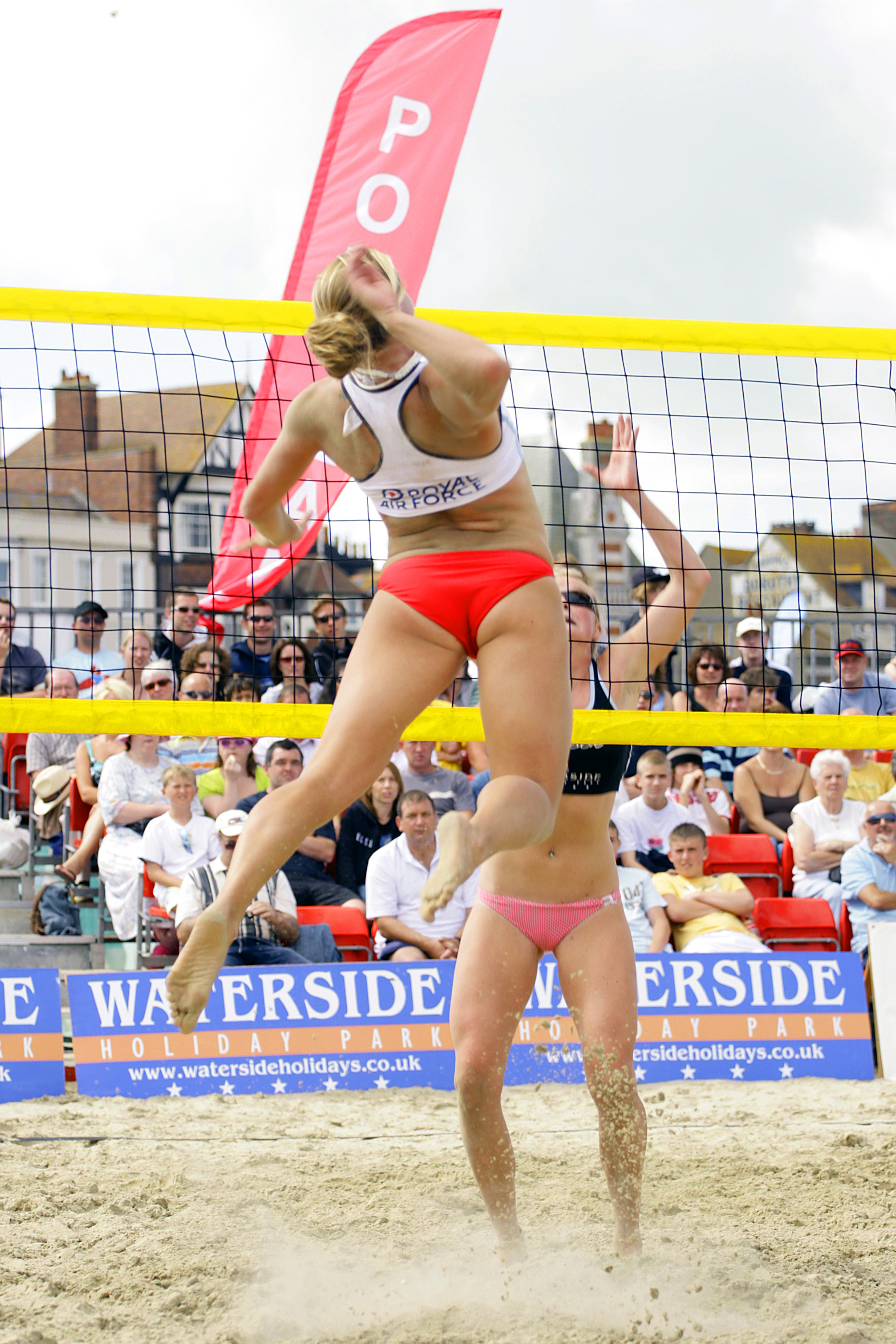 Beach Volleyball Classic 2007 Weymouth Dorset ENGLAND